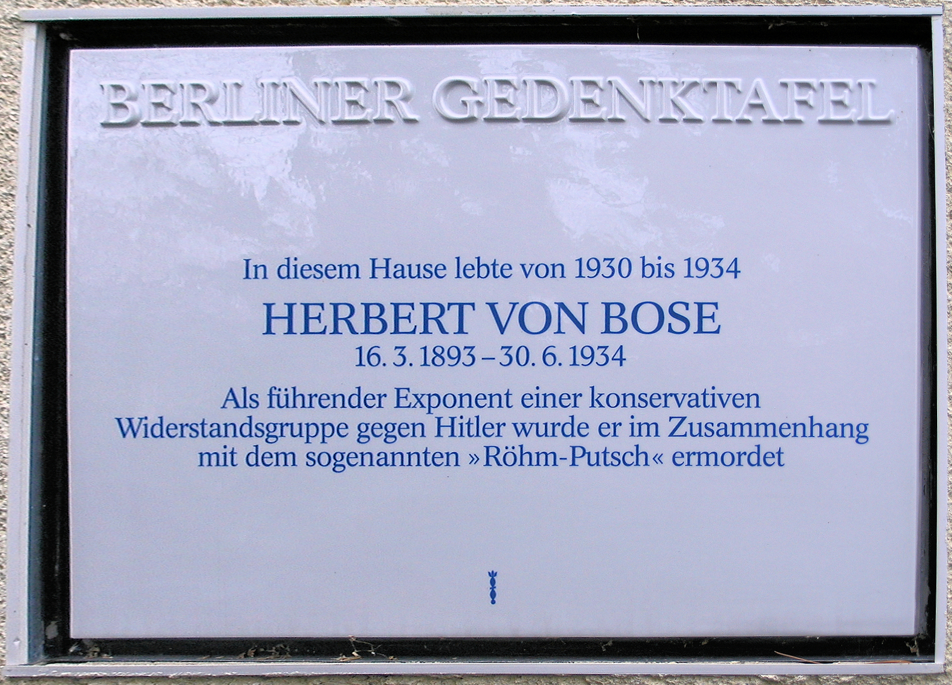 Berlin memorial plaque, Herbert von Bose, Neuchateller Straße 8, Berlin-Lichterfelde, Germany